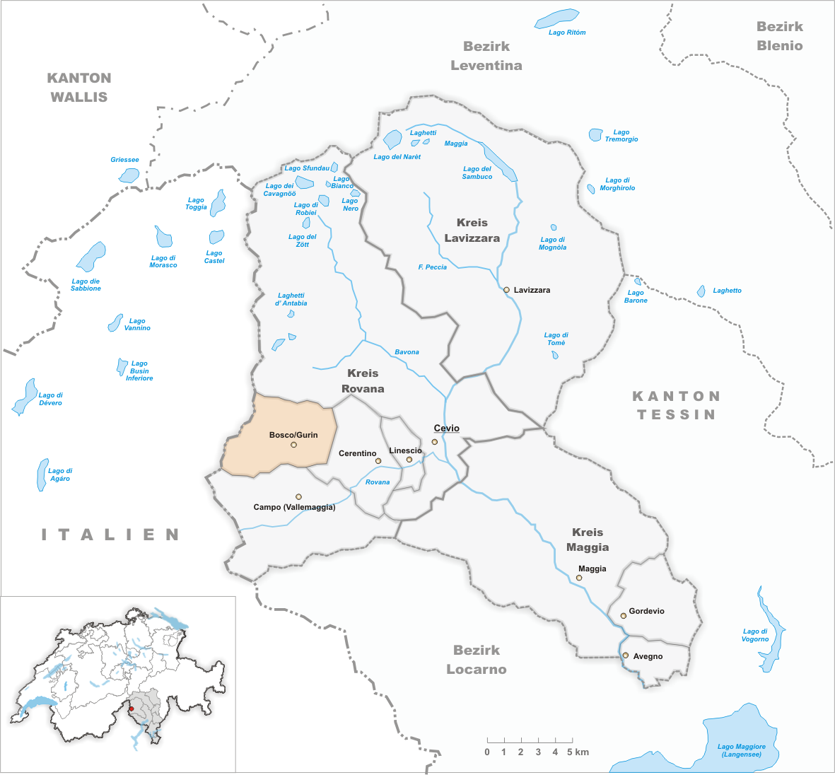 Municipality Bosco/Gurin